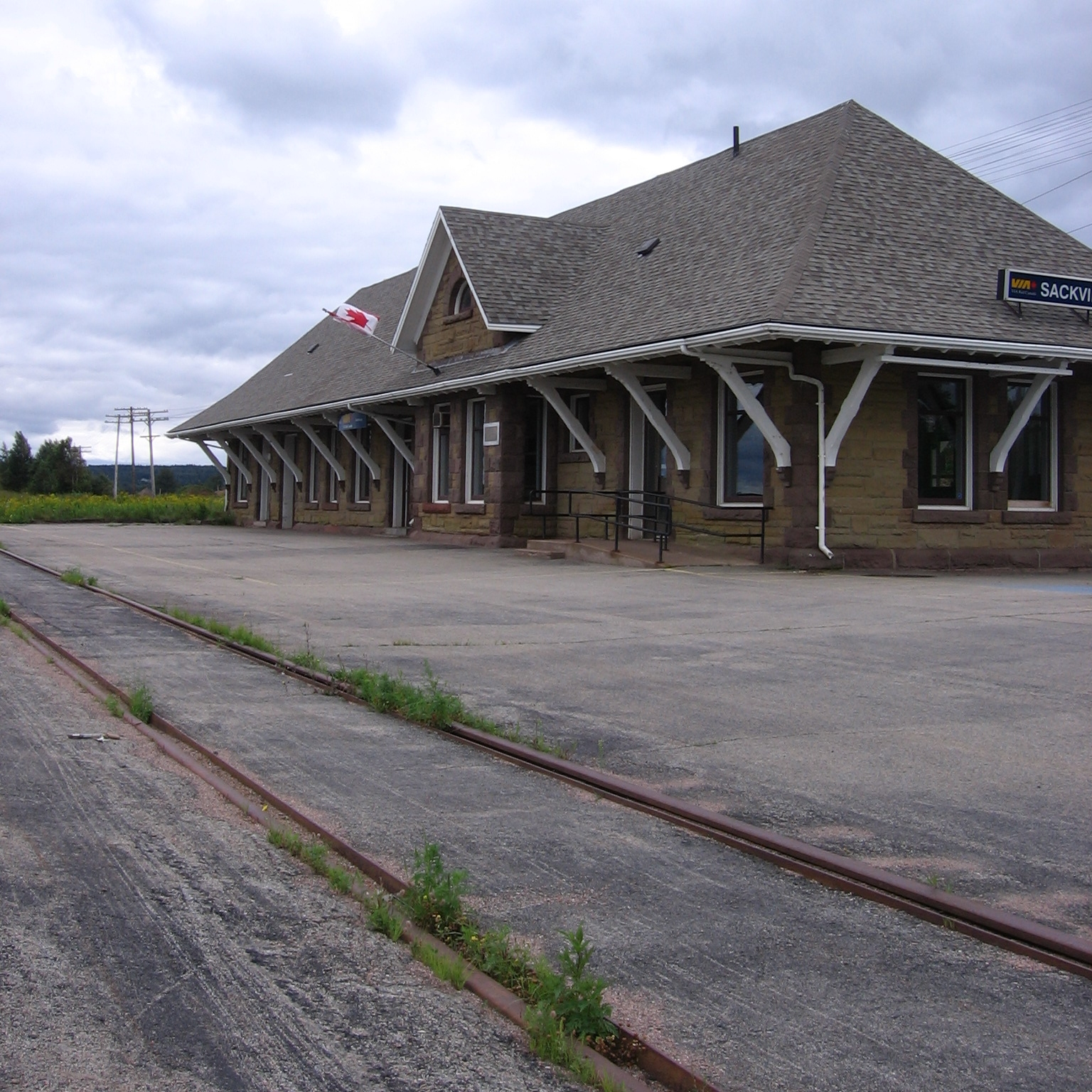 Sackville VIA station, Sackville New Brunswick, Canada